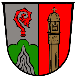 Coat of Arms of Böhmfeld